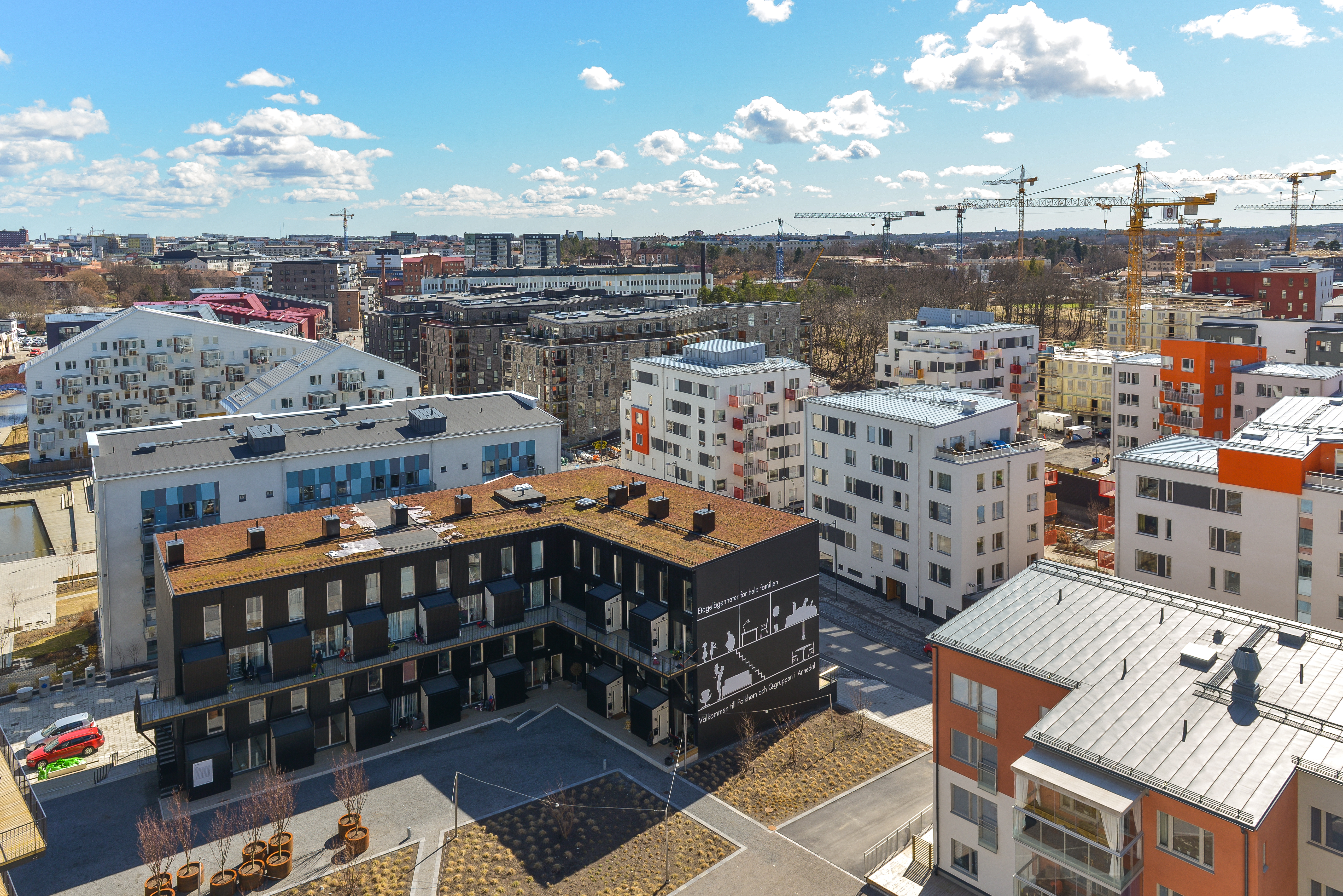 Buildings in Annedal, Stockholm.